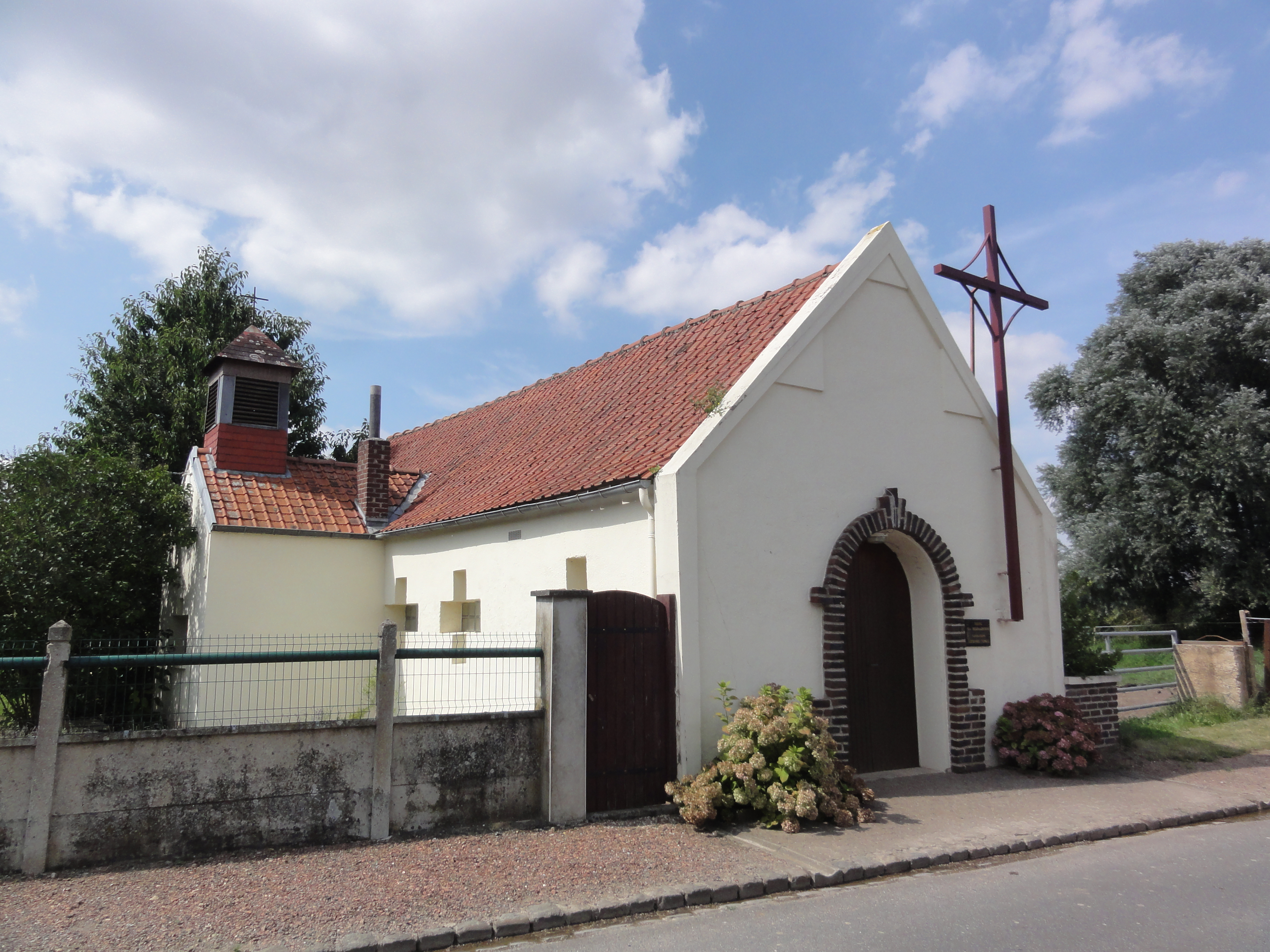 Ramicourt (Aisne) église Sainte-Bernadette